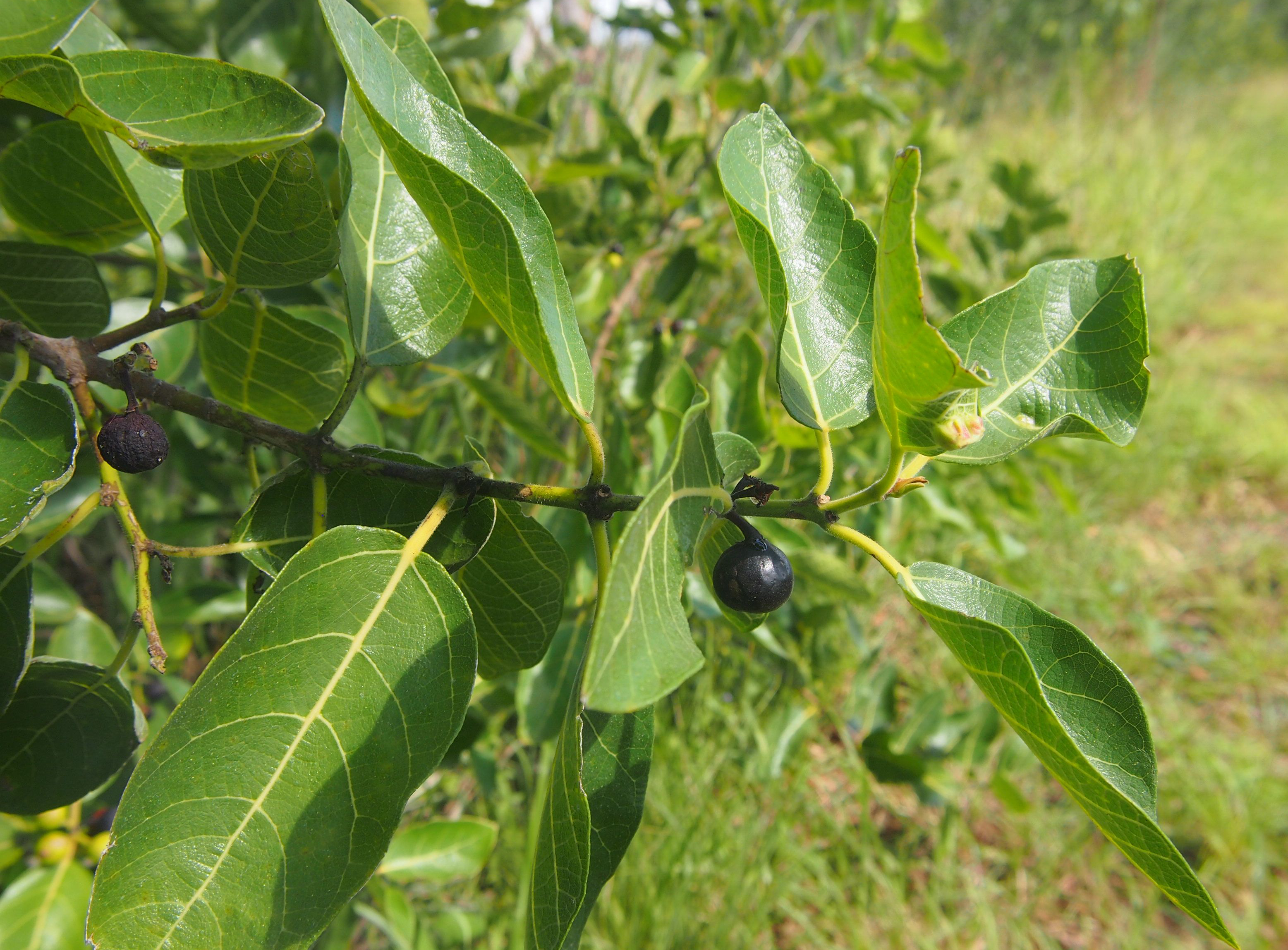 Ficus coronata fruit and foliag